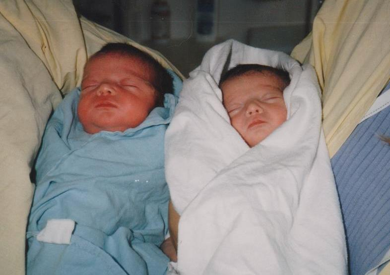 Twins born with Twin-to-twin transfusion syndrome (TTTS)